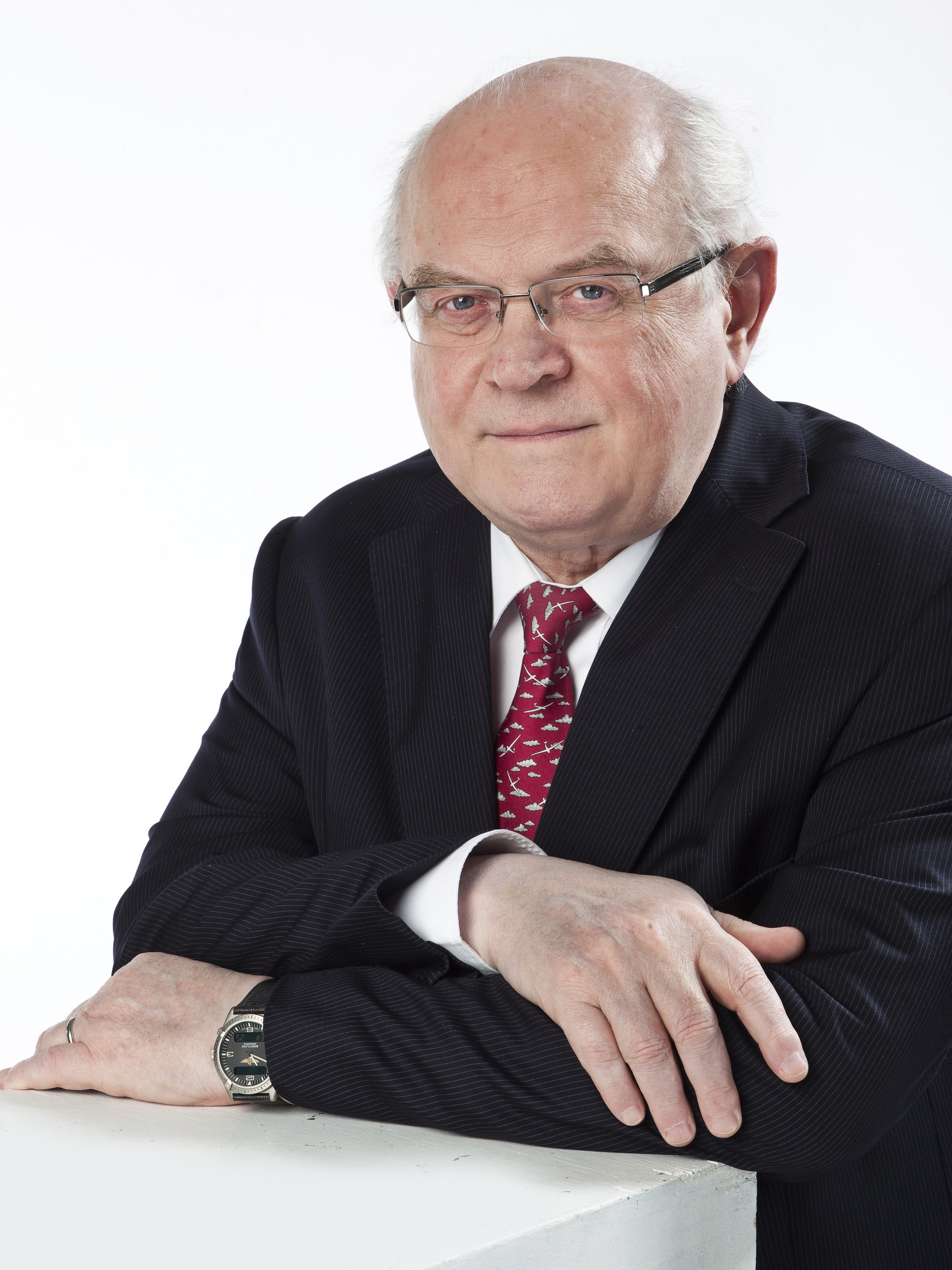 Désiré Collen blends fundamental and translational research with business enterprise.